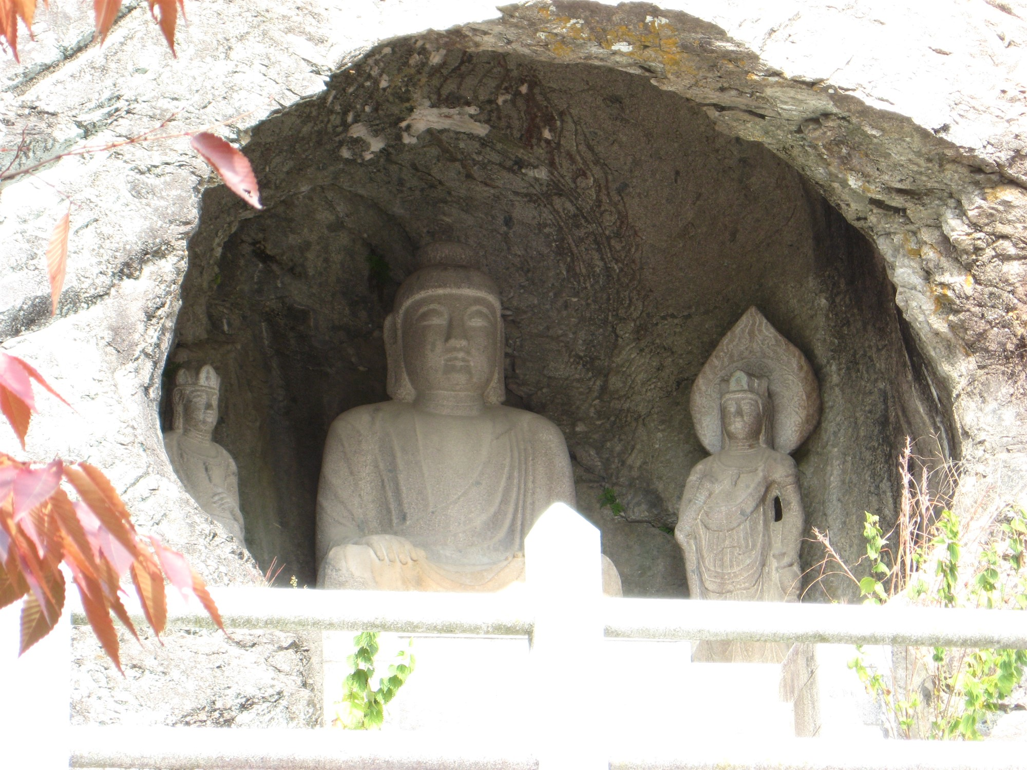 Buddha seokguram (grotto) at Palgong Mountain, Daegu, Korea